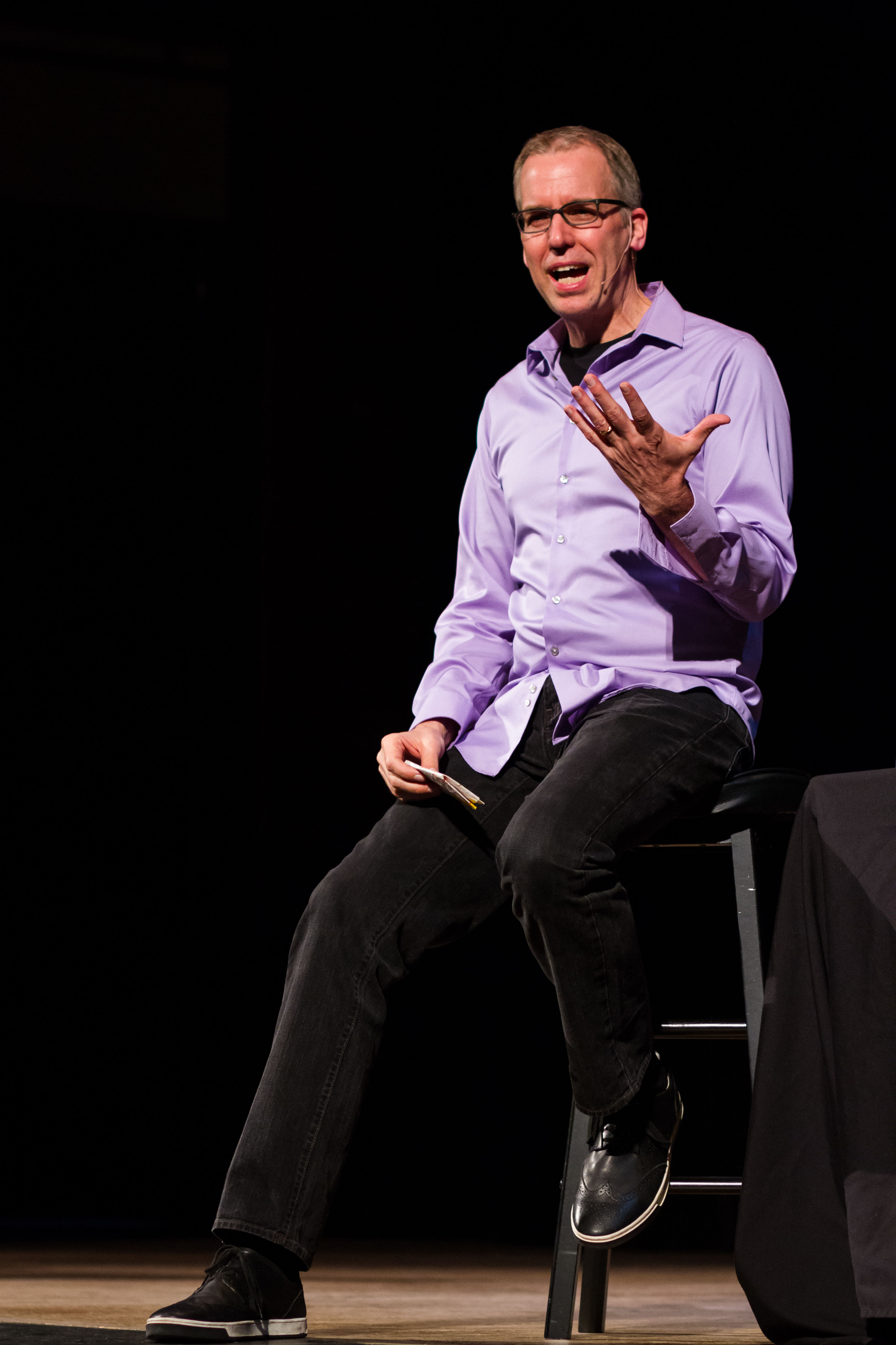 PostSecret: An evening with Frank Warren at the Missouri Theatre.